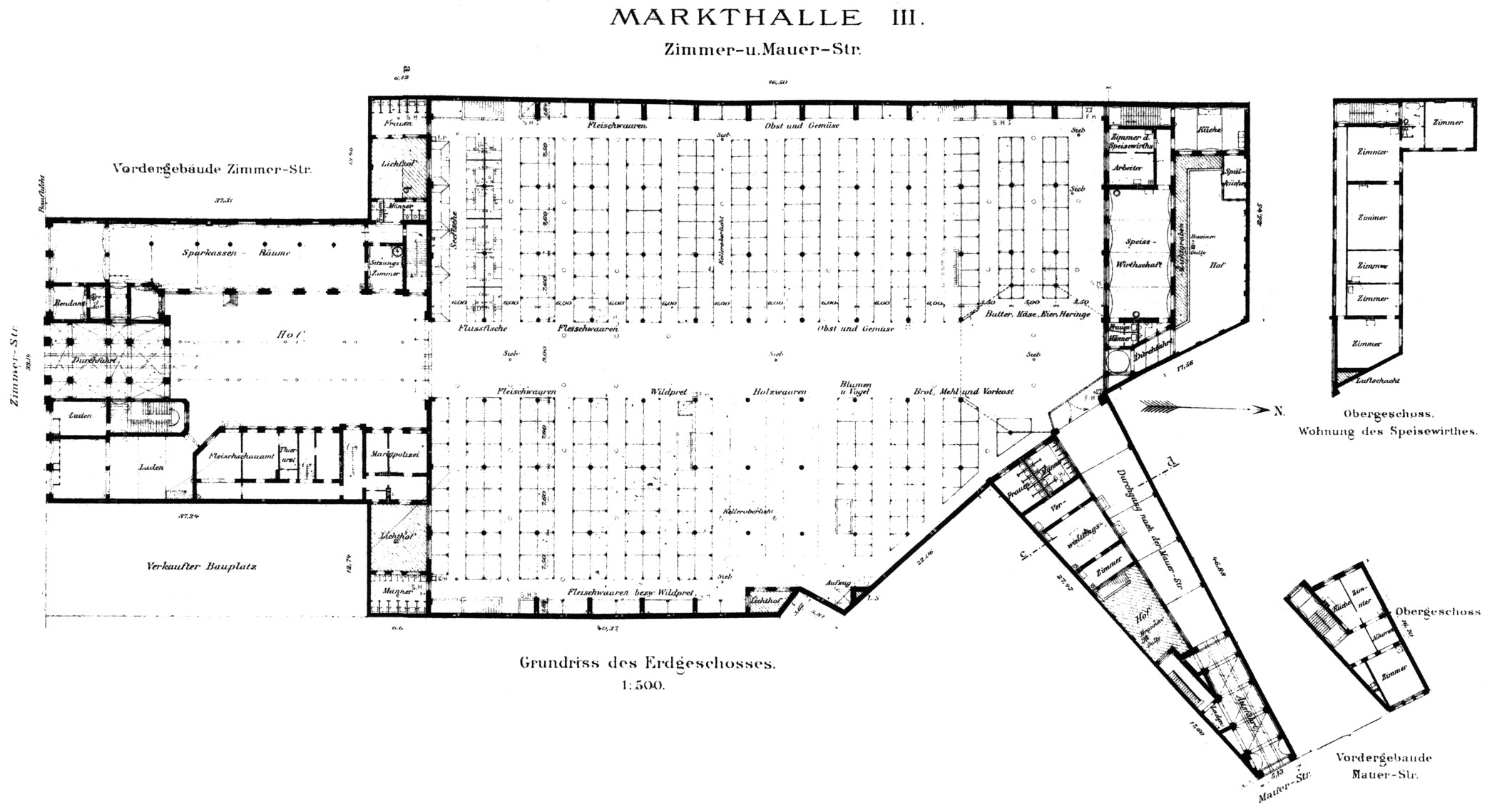 Berlin - market hall III, plan